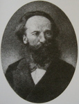 Vasil Diamandiev. Photographs of the members of the Bulgarian Constituent Assembly in Veliko Tarnovo, 1879